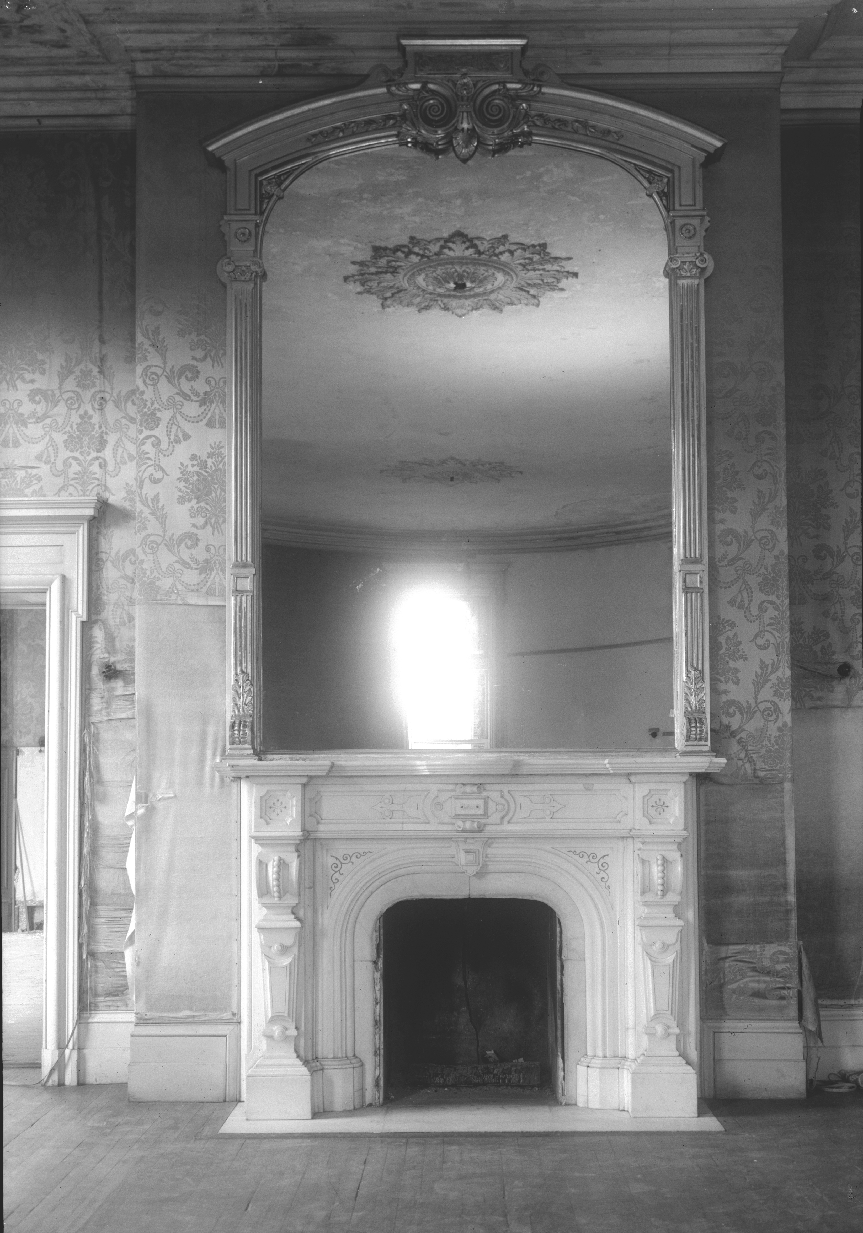 Northfield Chateau, Birnam Road, Northfield, Massachusetts, USA. Photograph of interior. (This building no longer exists.)